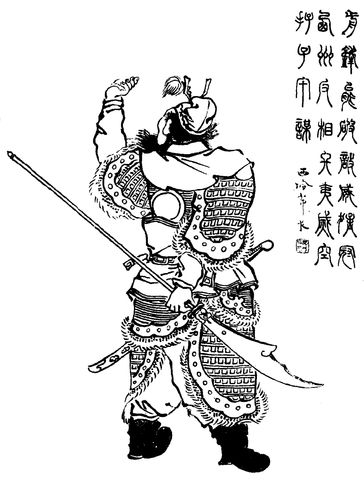 Qing dynasty portrait of Wei Yan